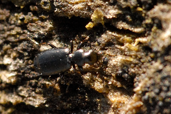 Microlestes maurus from Commanster, Belgian High Ardennes .